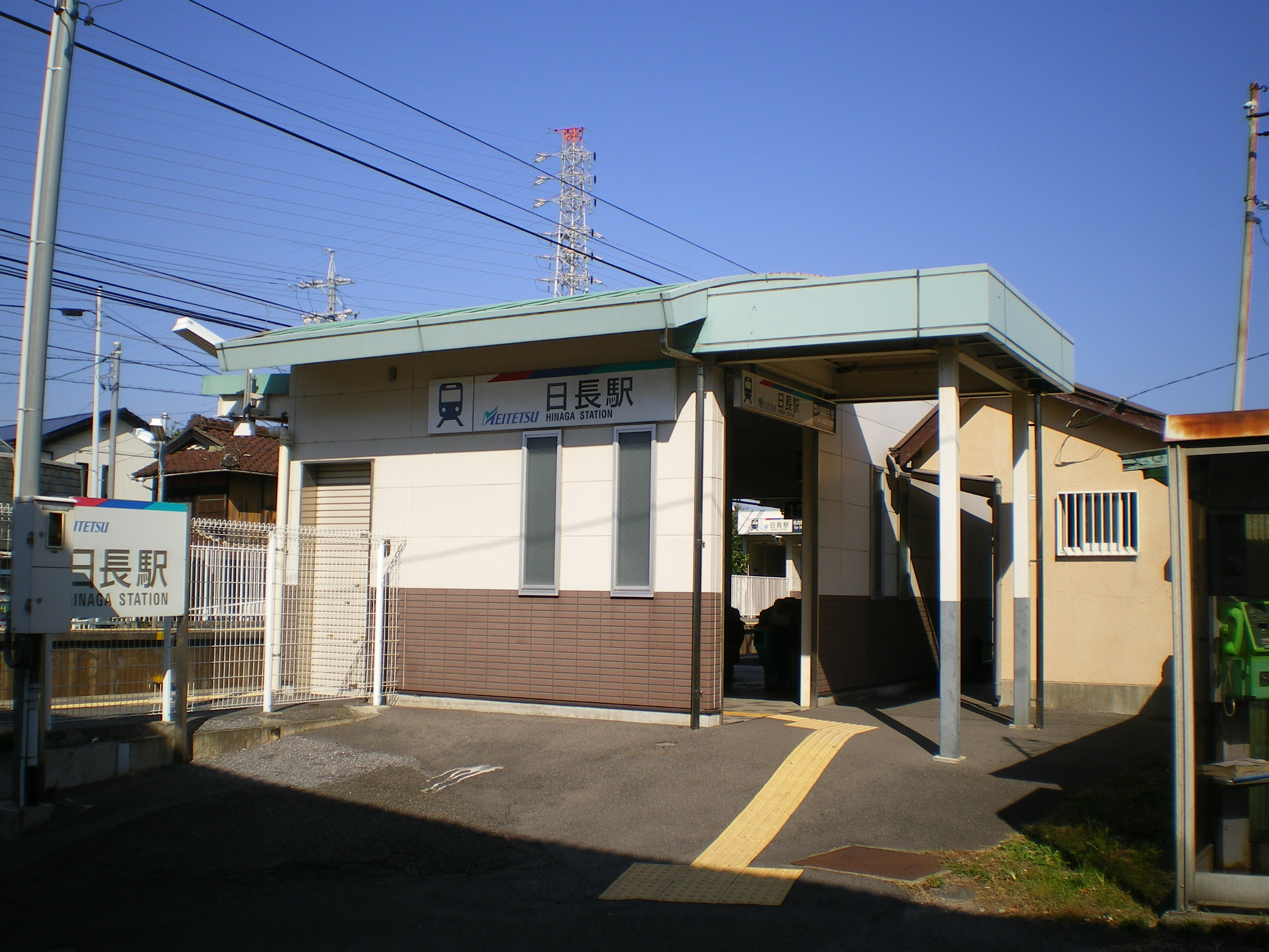 Nagoya Railroad Tokoname Line Hinaga Station Building (for Central Japan International Airport)